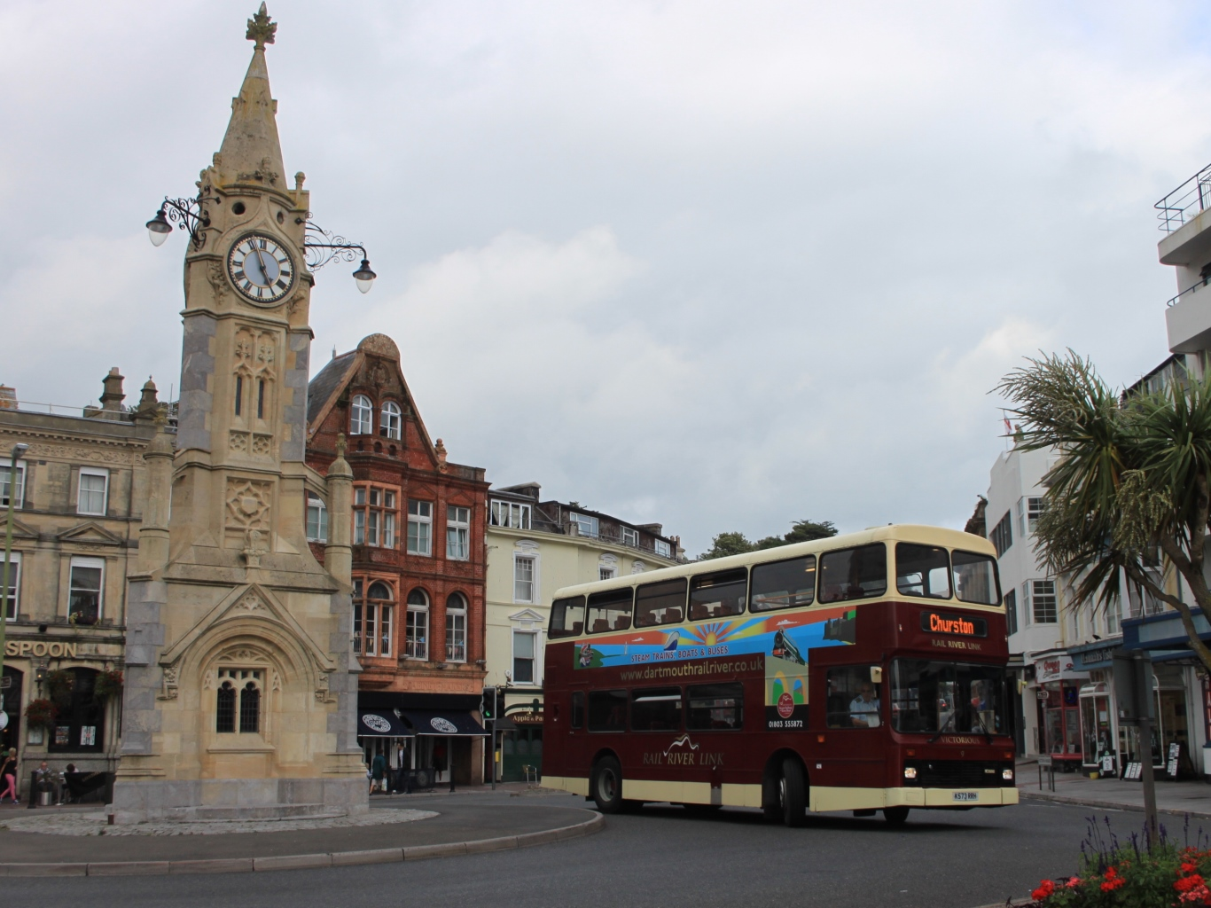 Rail River Link's number 9 (a former East Yorkshire Northern Counties Palatine registered K573RRH) turns round at the Clock Tower by Torquay harbour to head back to its Churston depot at the end of a summer day's services.